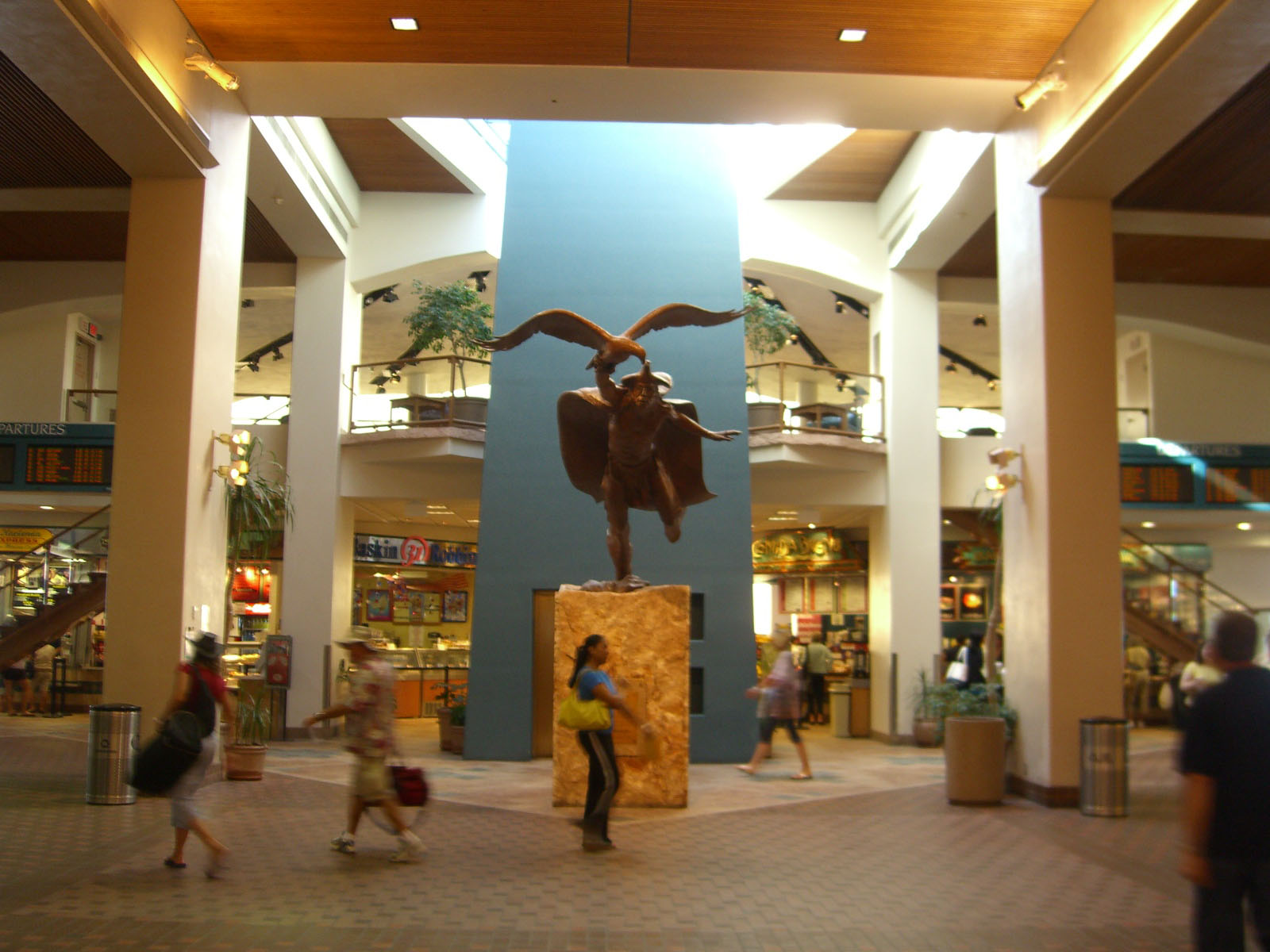 A statue in the Albuquerque International Sunport. Photographed by Luigi Novi. This photo is not in the public domain. It may, however, be used, modified and published for any purpose, free of charge, only if the photographer is properly credited, either by linking the photograph to this page, or with an easily visible credit to the photographer placed near the photo in each instance in which it is used. (See licensing information below.) Publication of this photo without this proper attribution constitutes copyright infringement. If you have any questions, you can contact me on my Wikipedia Talk Page.